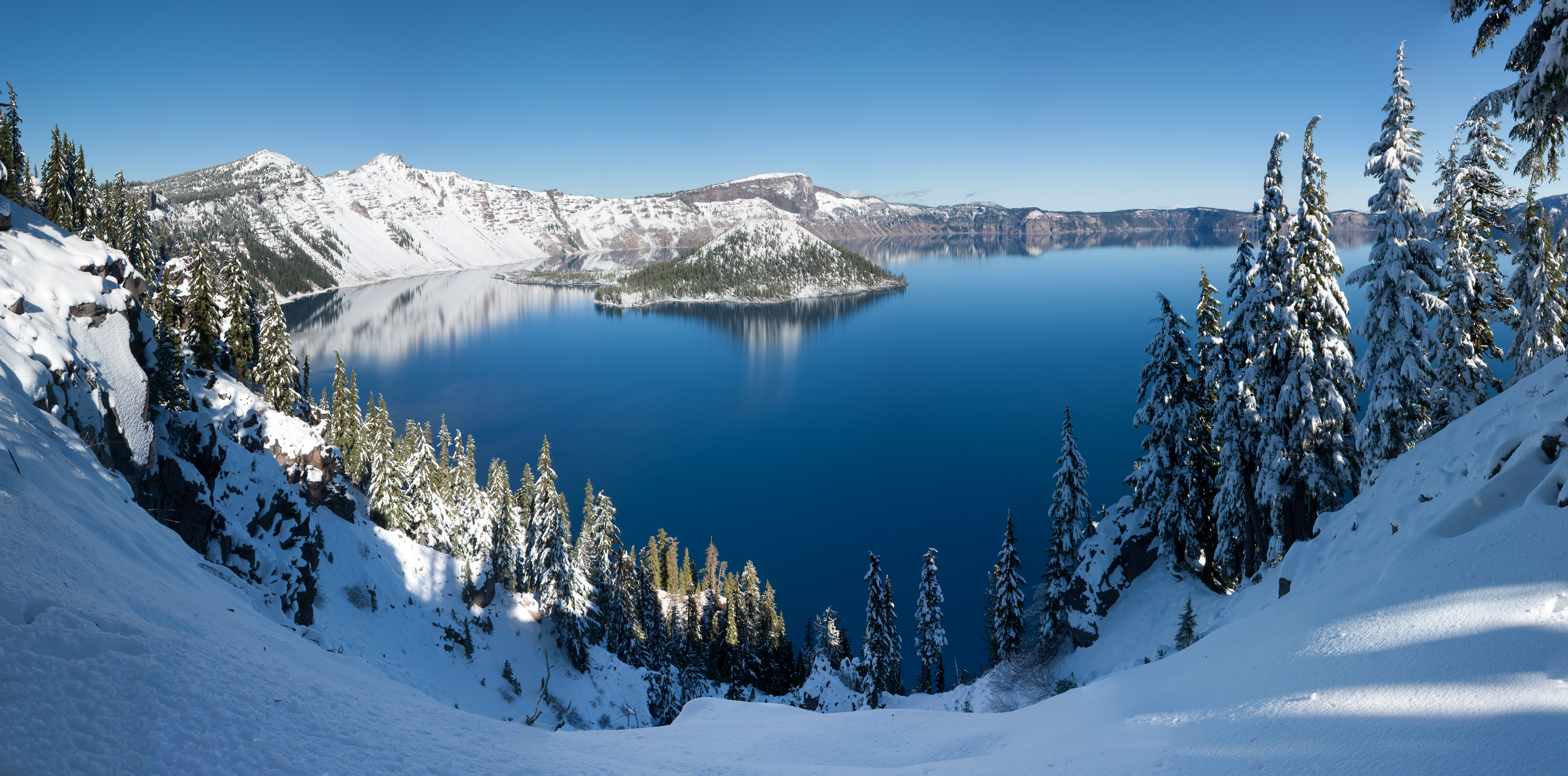 Panoramic winter view of Crater Lake in Crater Lake National Park, Oregon, from Rim Village. Full-size version.